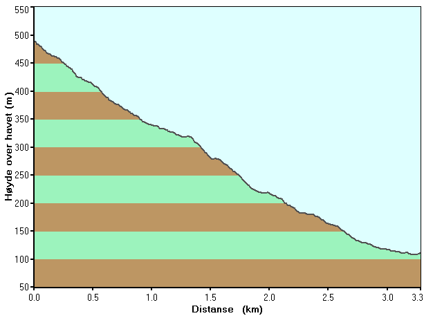 Height profile climbing the Sausfjellet mountain in Brønnøy, Norway